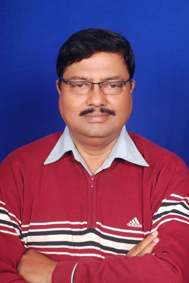 Devendra Sharma is an Indian politician, currently serving as a MLA from Aul Constituency in 2014 Election.